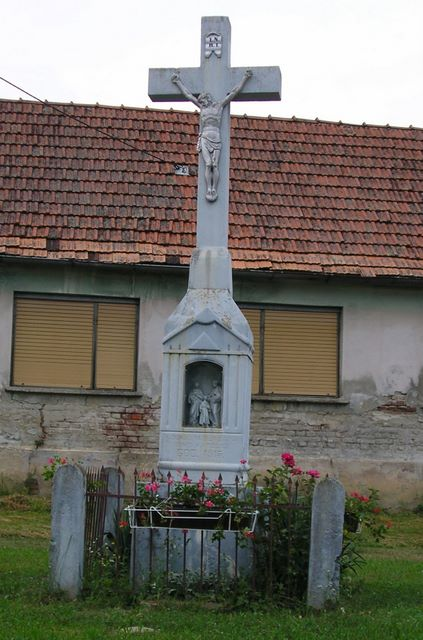 Crucifix in Novigrad Podravski